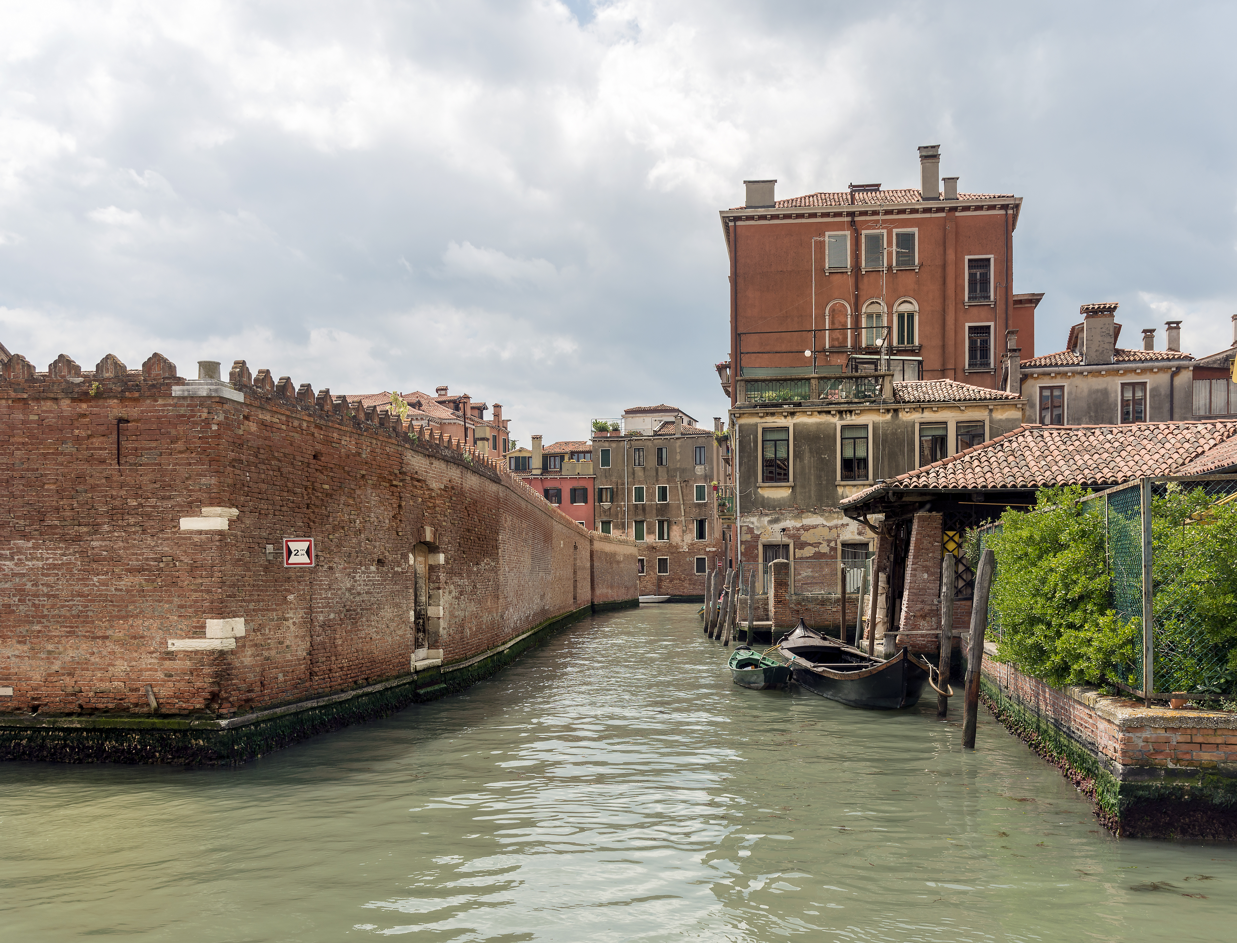 North parte of rio dei Servi in Venice.